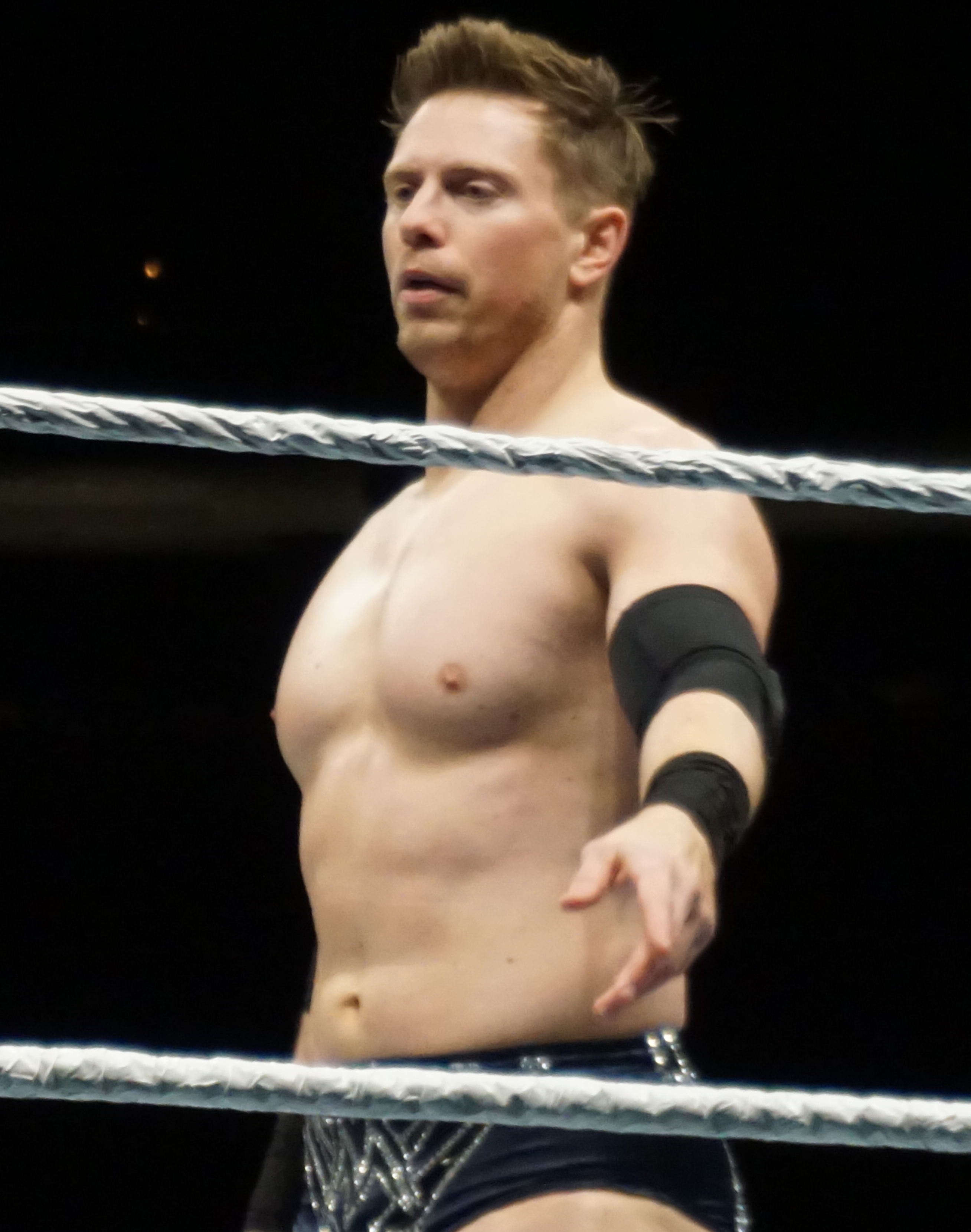 The Miz at the WWE live show in Buffalo, NY on March 25th, 2018